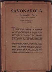 Cover of Charlotte Eliot's drama: Savonarola